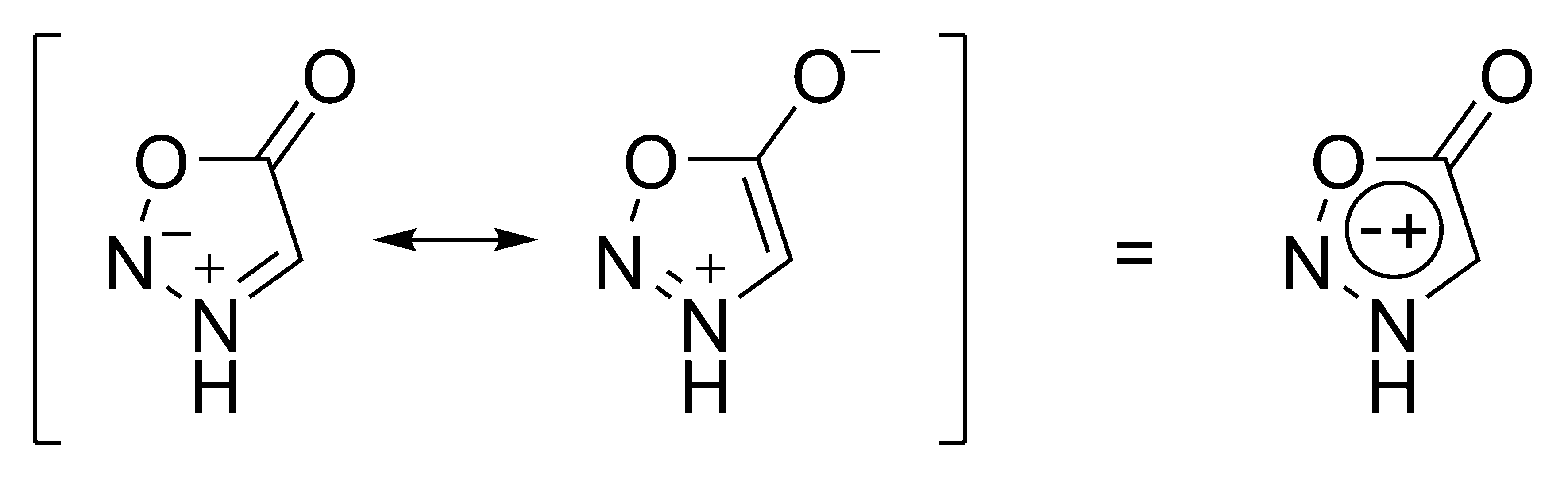 Chemical structure of sydnone